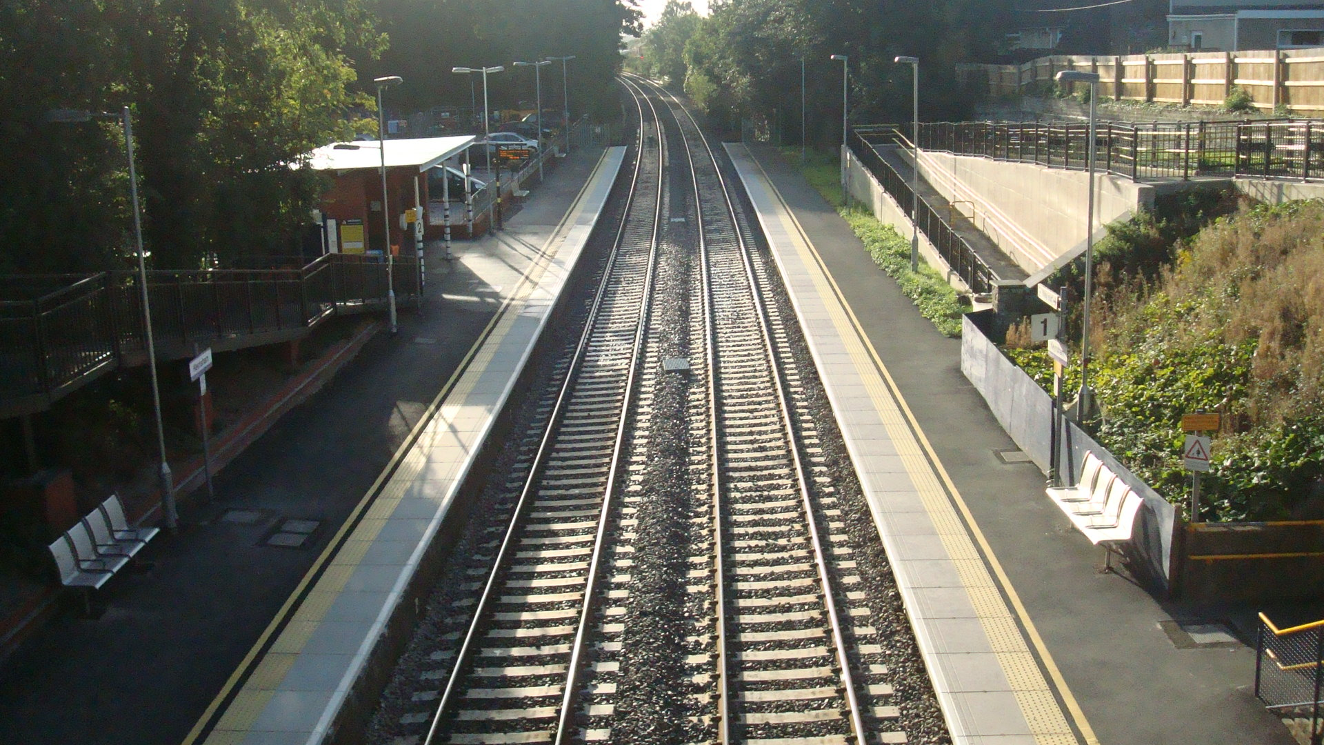 Keynsham on a early Sunday morning.